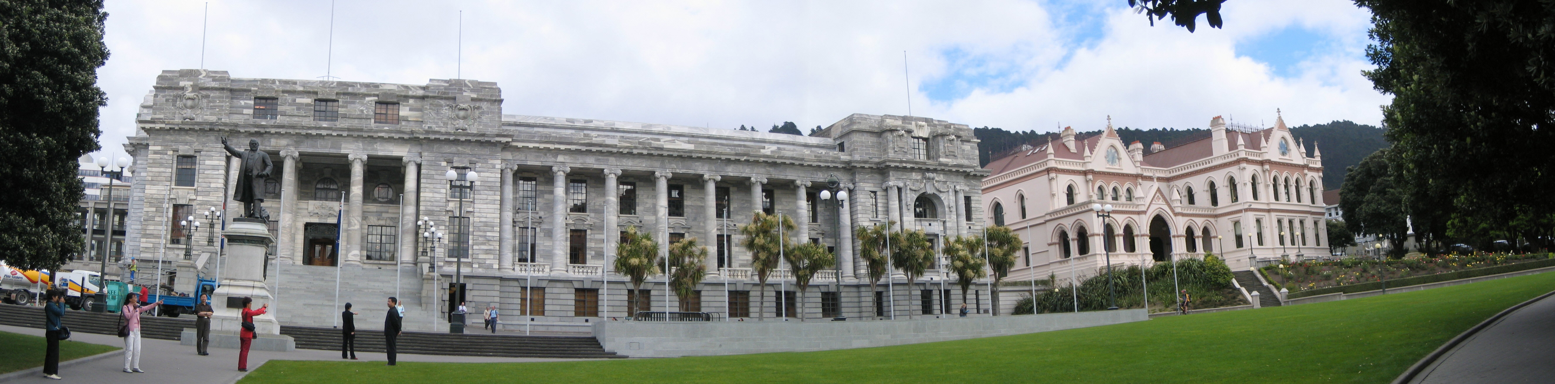 New Zealand Parliament Buildings, Wellington, NZ.